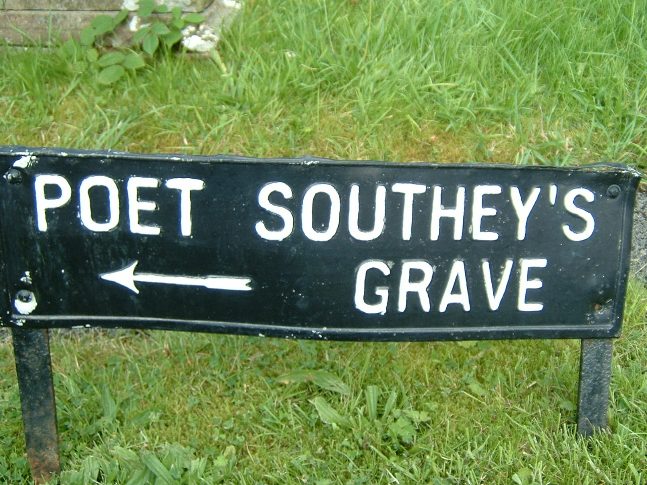 Direction sign to Robert Southey's grave at St Kentigern's Churchyard, Crosthwaite, Keswick, Cumbria, England. Taken by Tom Grayling.